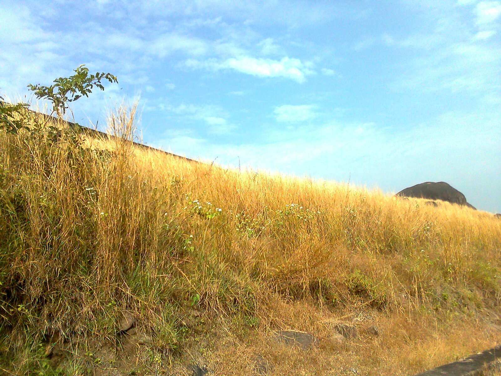 taken by me from puramathra, device nokia x3